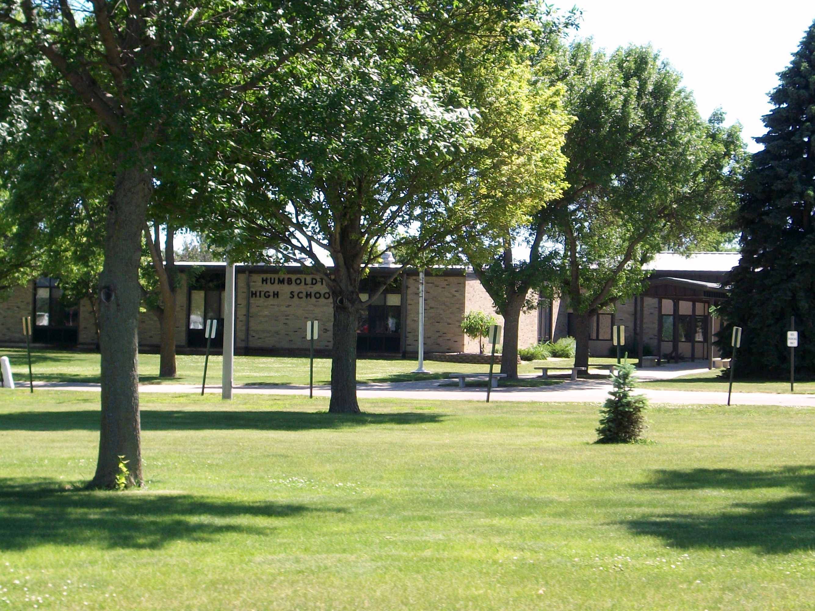 Humboldt High School in Humboldt, Iowa as viewed from Humboldt CR C44 (Wildcat Rd.).